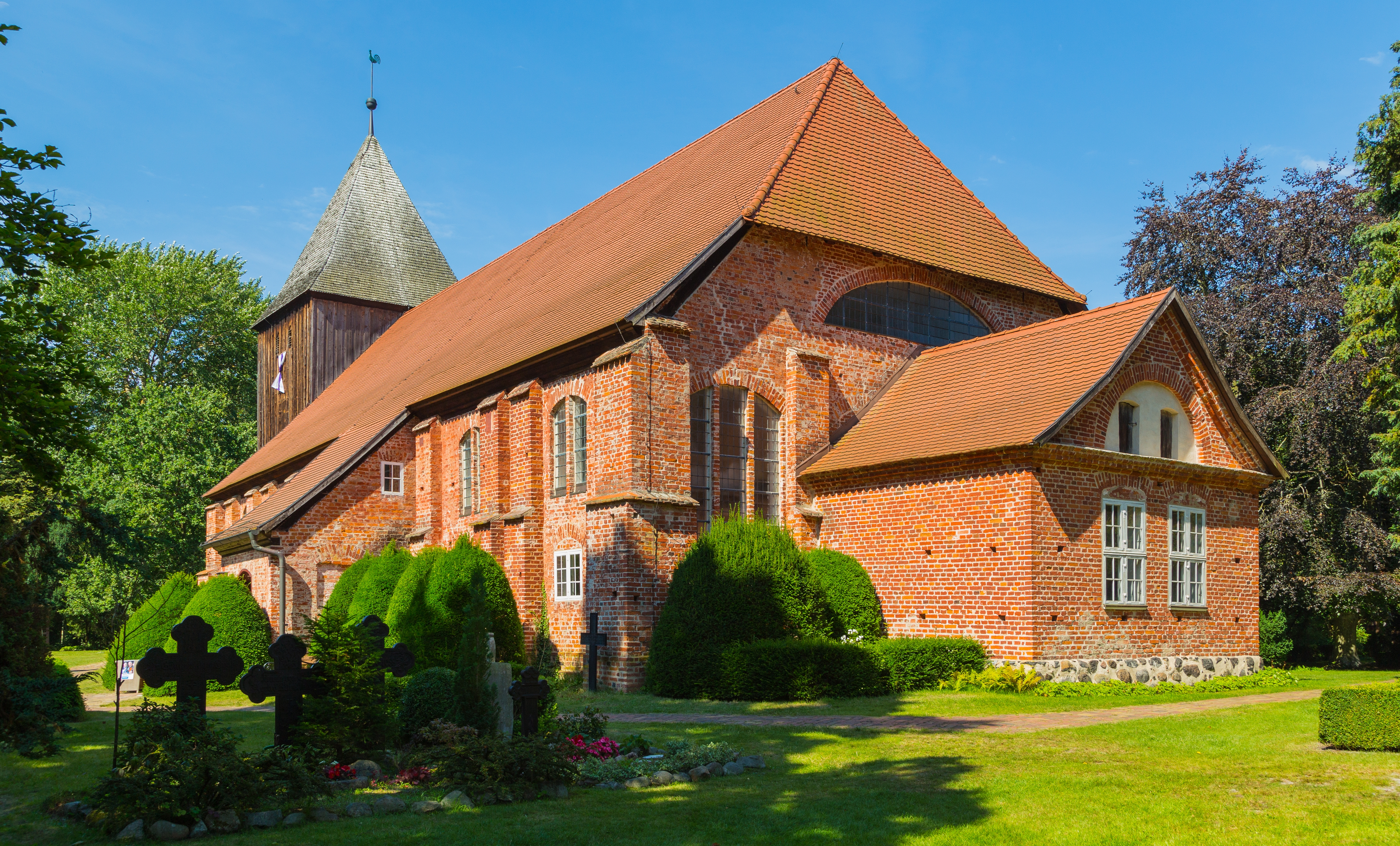 The Protestant Seamen's Church (Seemannskirche) in Prerow, Landkreis Vorpommern-Rügen, Mecklenburg-Vorpommern, Germany.